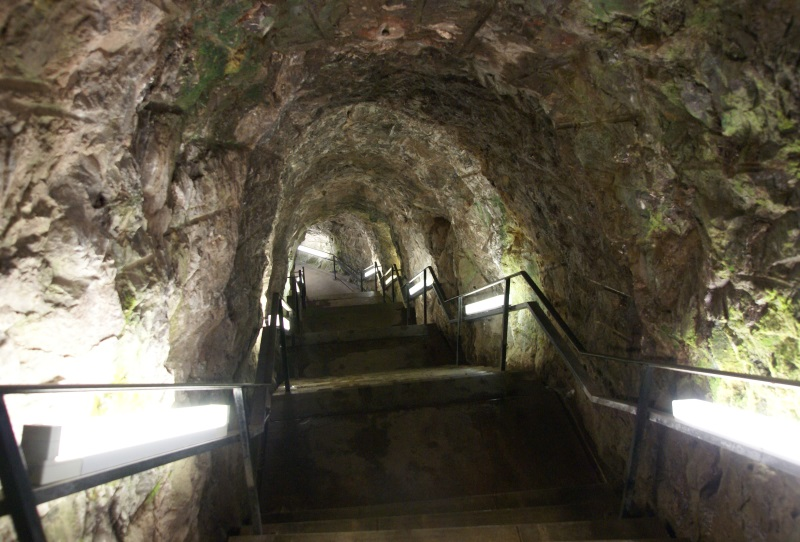 Felsenkirche, Idar-Oberstein, Germany. Entrance tunnel (1980-1981).